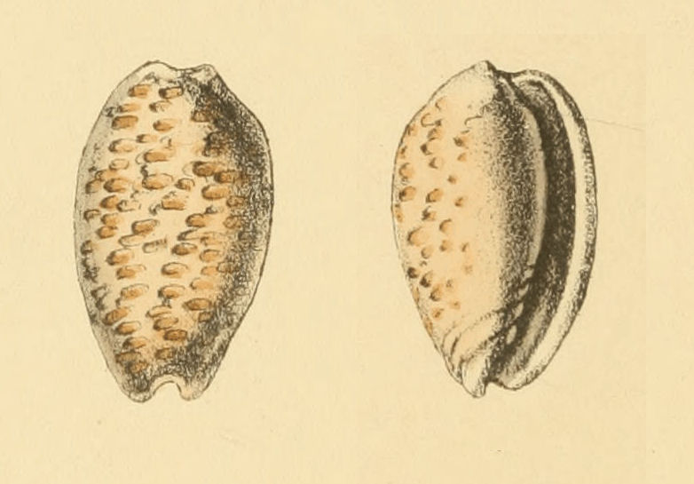 Extract from Plate 44, Zoological illustrations, Volume 1, 2nd series. Marginella guttata. Accepted as Prunum guttatum[1] This file has been extracted from another file: Zoological Illustrations Volume I Series 2 044.jpg